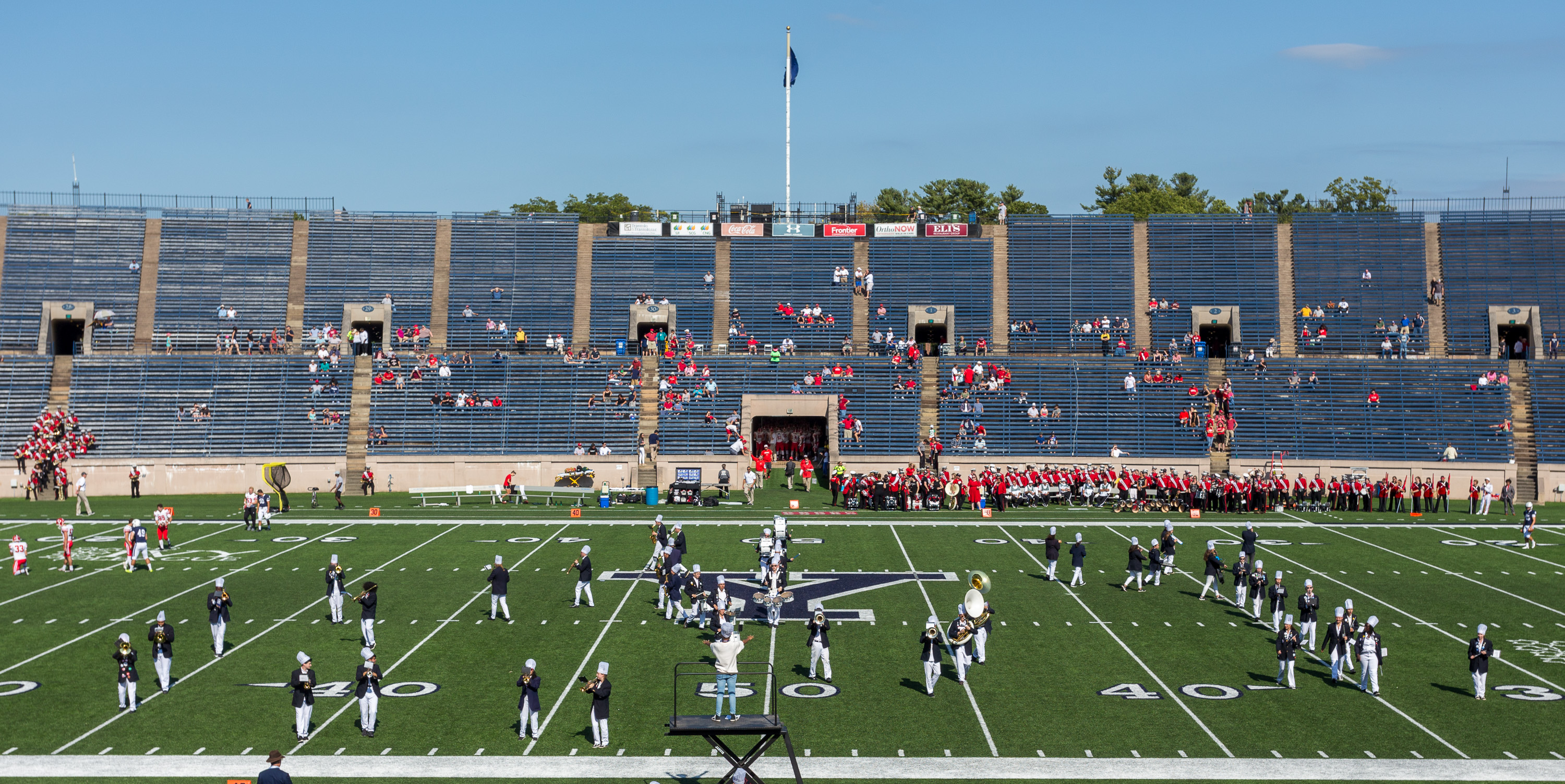 Yale Precision Marching Band. Yale/Cornell Football game at Yale Bowl, Sept 28, 2019.